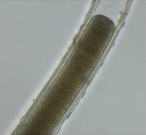 Filament of Moorea producens.